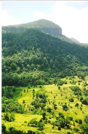 NSW Qld border, Numinbah Road - habitat of Endiandra globosa and Endiandra floydii